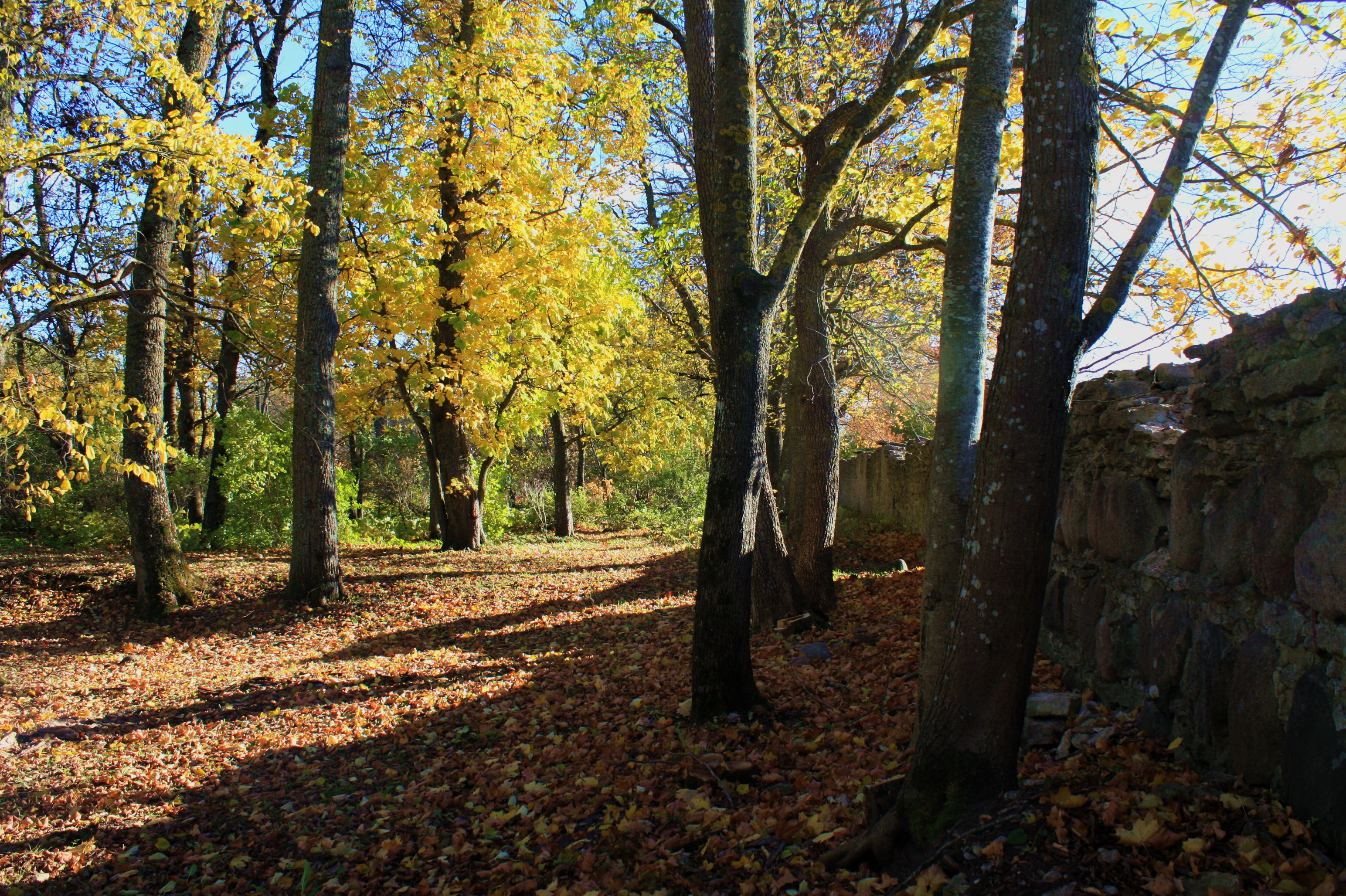 Anija manor park